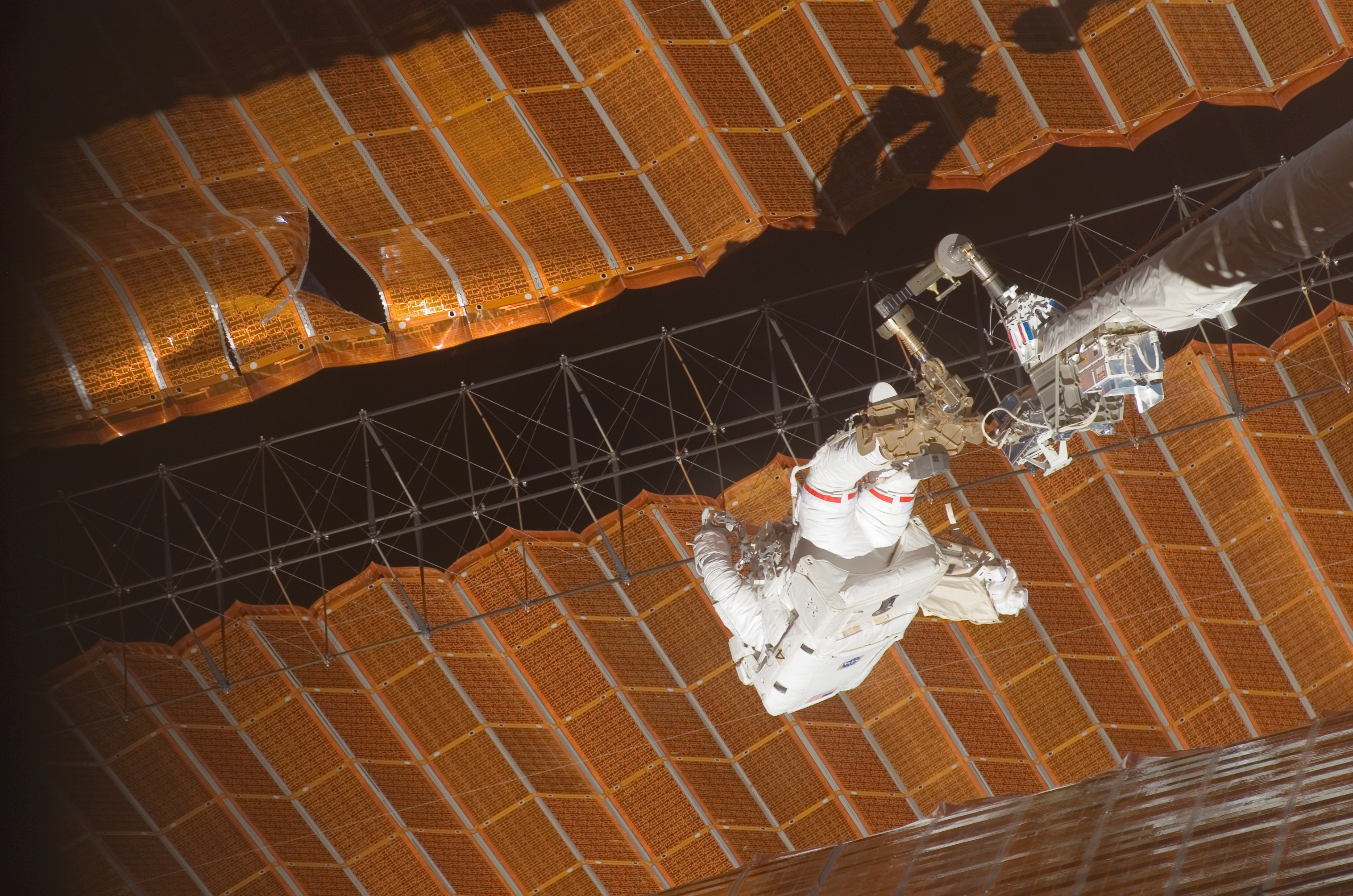 While anchored on the end of the OBSS, astronaut Scott Parazynski repairs a US Solar array which damaged itself when unfolding during STS-120.